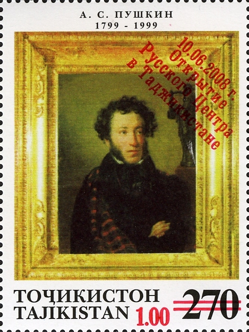 Stamps of Tajikistan